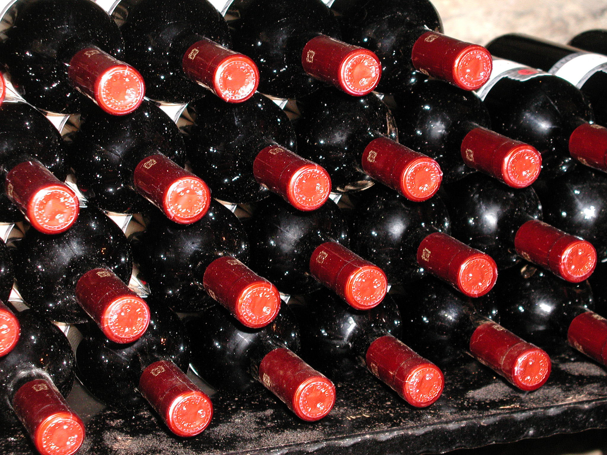 Bottles of red wine.